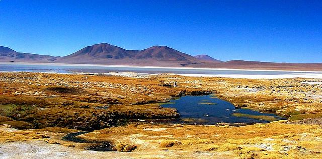 Foto del Salar de Huasco.